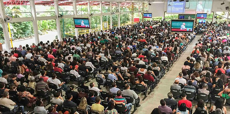 This image represents a Maanaim, space built by Maratha Christian Church, in order to teach people about the bible and its doctrines.